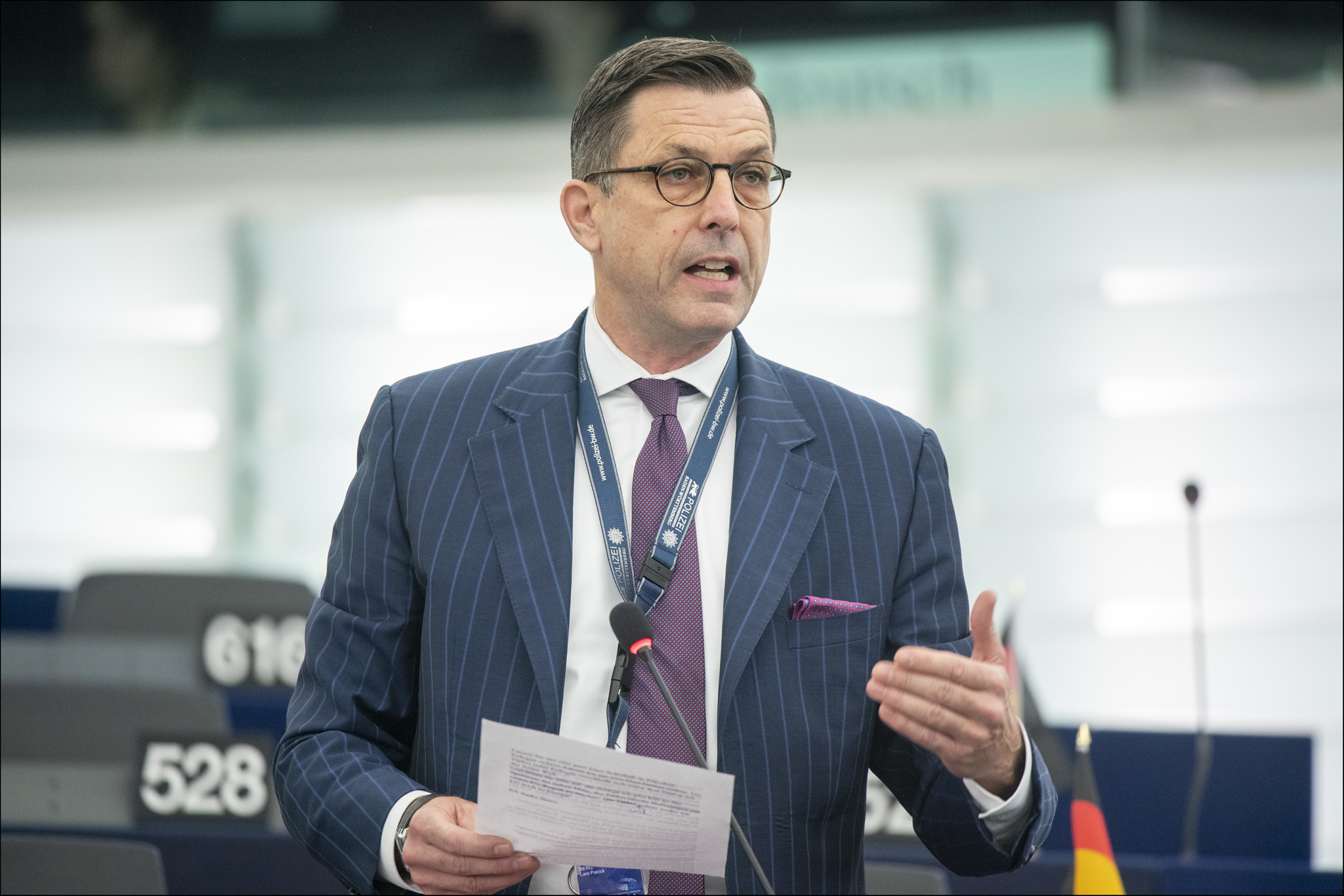 Lars Patrick Berg during a debate calling for measures against Turkey following military operation in Syria in the European Parliament